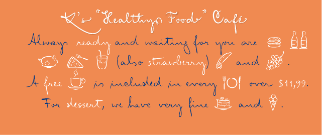 Probe of K Pictos small.png